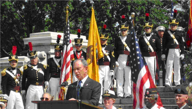 Picture taken by members of the VCASNY during the annual Battery Park 4th of July celebration